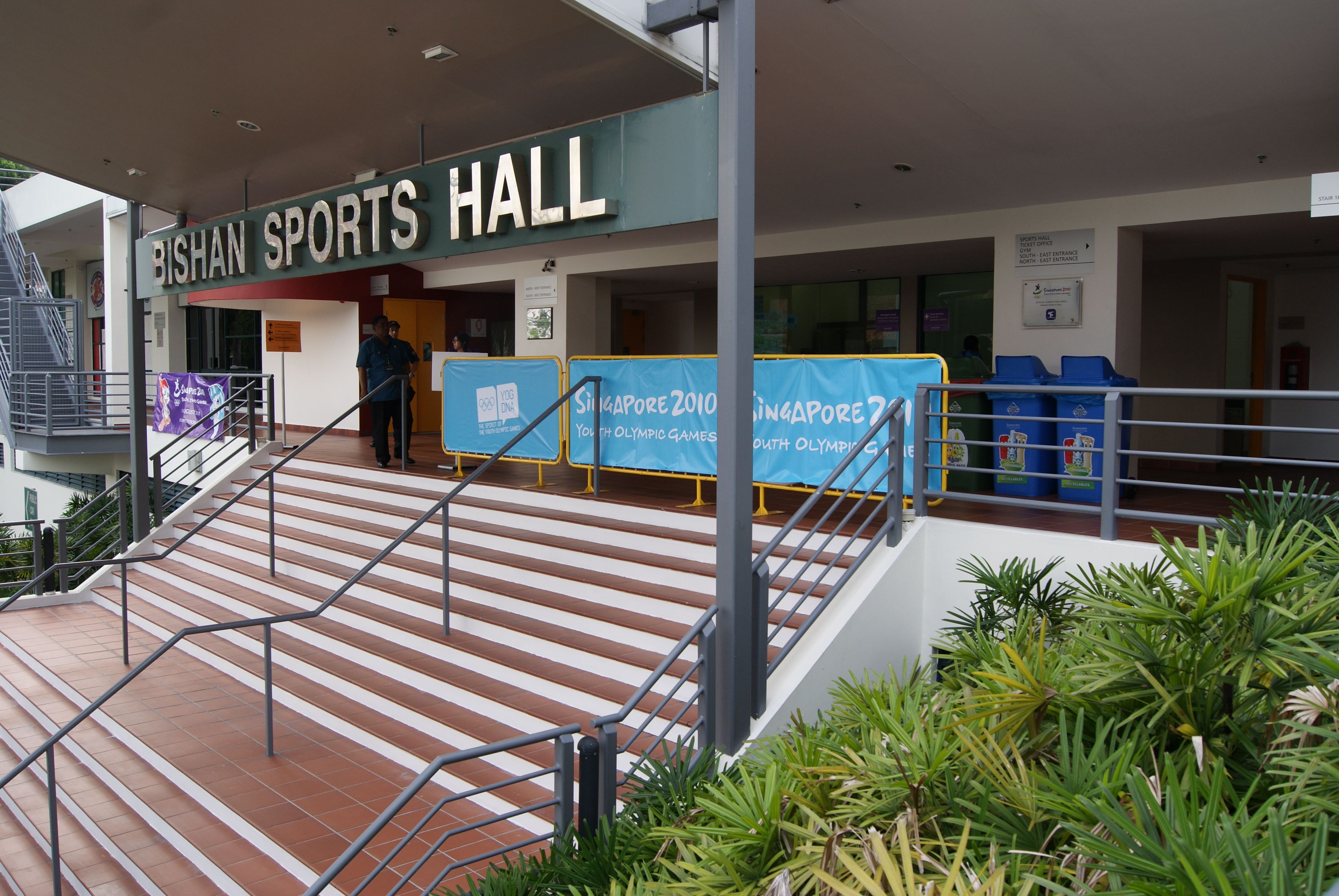 Bishan Sports Hall in Singapore, which was used for the gymnastics competition at the 2008 Summer Youth Olympics.